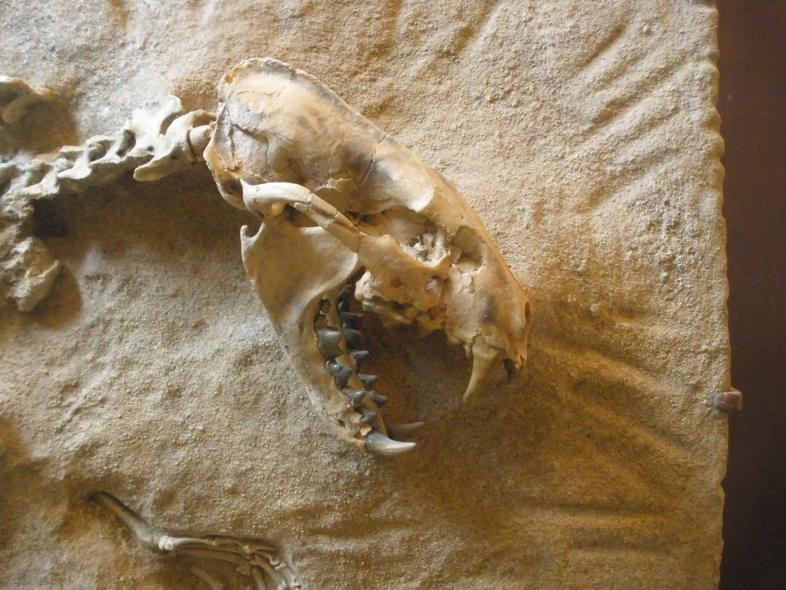 fossil of Sthenictis, an extinct carnivoran